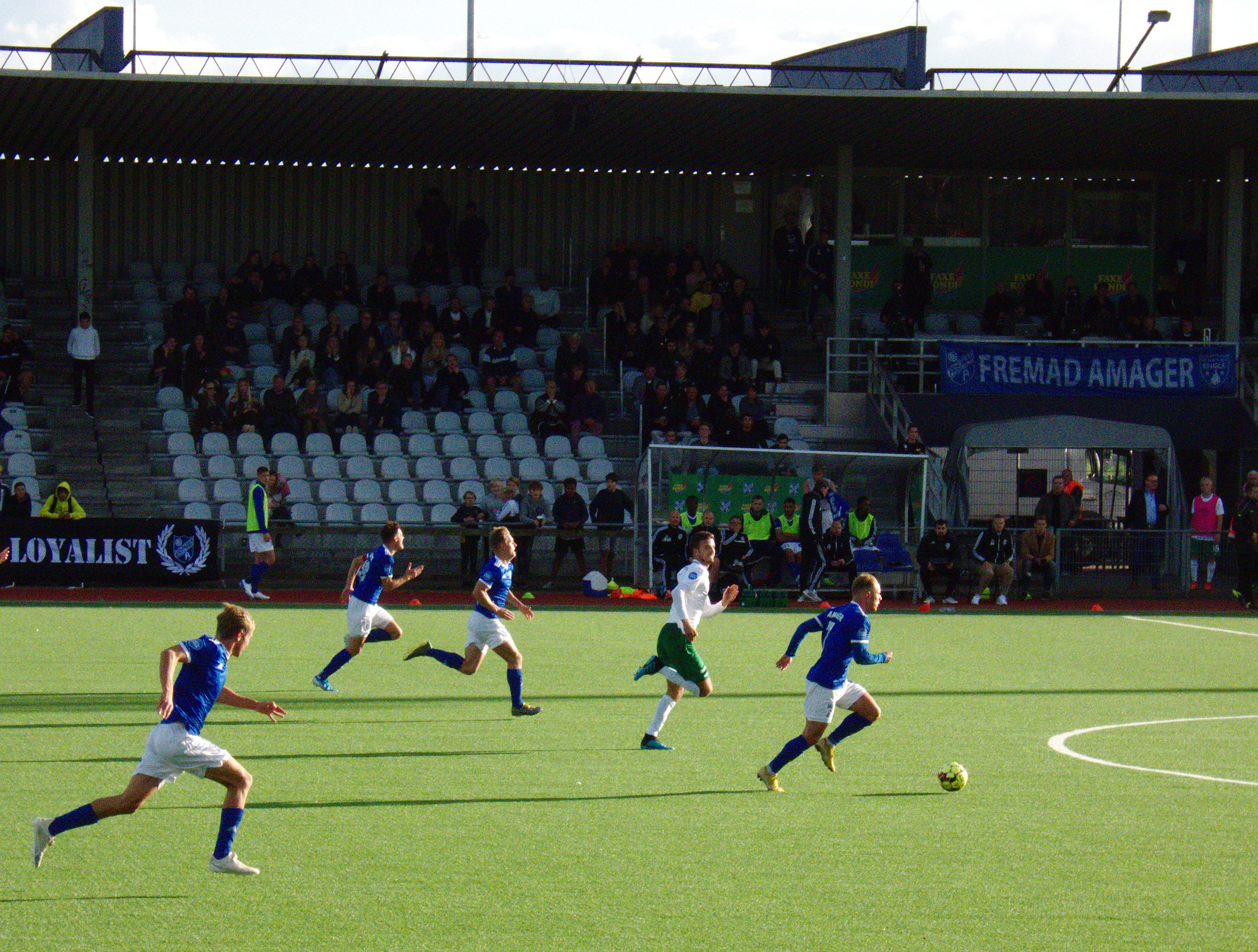 BK Fremad Amager players on a counter attack against Viborg FF in the Danish 1st division.